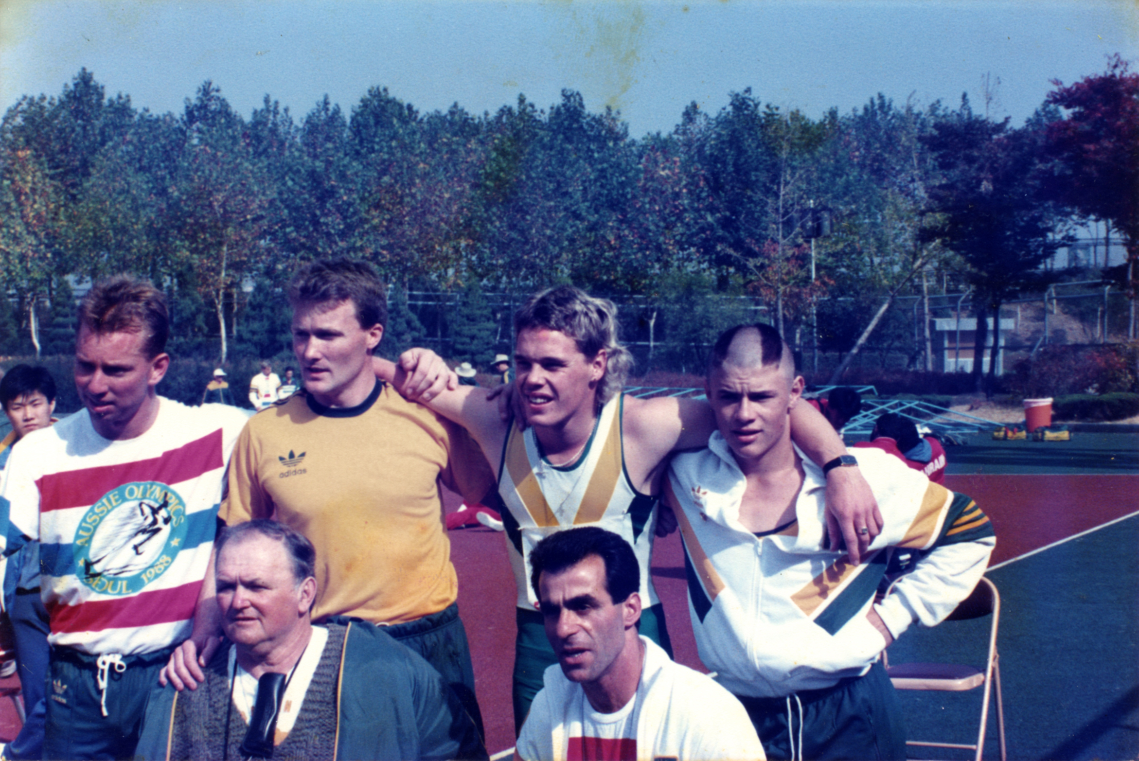 Nigel Parsons (L), Andrew O'Sullivan, Rodney Nugent and Adrian Lowe (R), with unknown official (L front) and coach Peter Negopontis after the team won the 4X400m A2/A4-7 relay in WR time at the Seoul Paralympics.